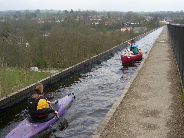 Two way traffic on the Pontcysyllte Aqueduct, near to Acrefair, Wrexham/Wrecsam, Great Britain. There were lots of people in canoes on the Llangollen Canal on this morning in April 2006, including this man with his dog, which was evidently quite used to this mode of transport.